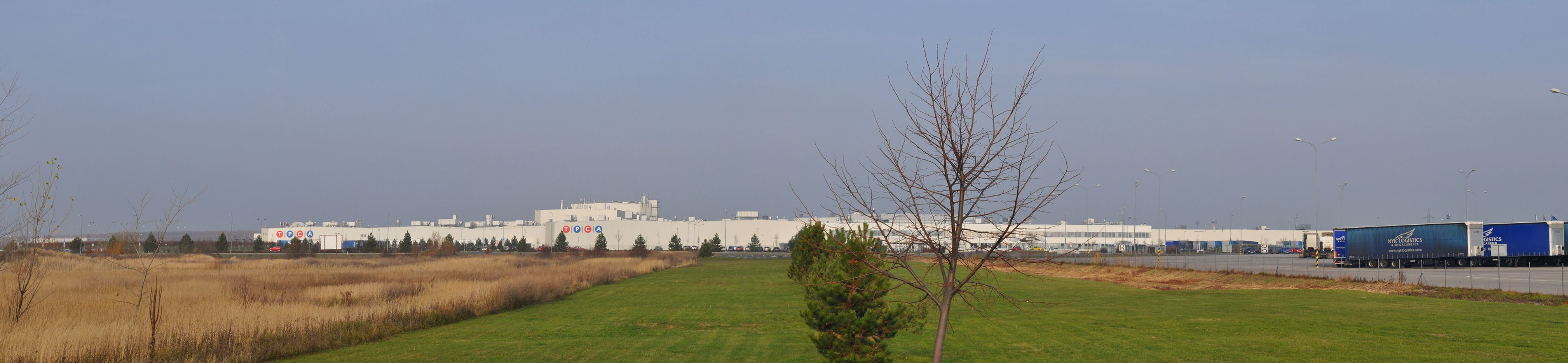 Toyota Peugeot Citroën Automobile Czech, car factory near Kolin CZ.